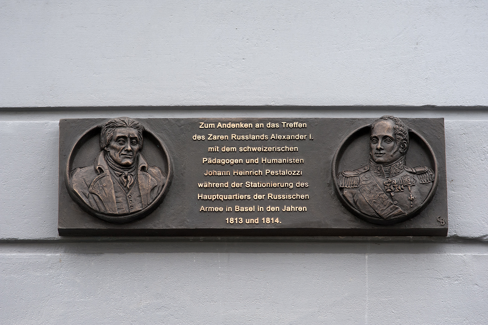 Memorial plaque for the meeting between Tsar Alexander I and Johann Heinrich Pestalozzi, 1814 in Basel; Seidenhof, Blumenrain 34; Basel, Switzerland. Plaque installed on 26 September 2012.